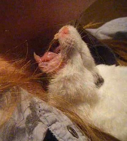 A screenshot of a video I made of my pet syrian hamster yawning, just after waking up.